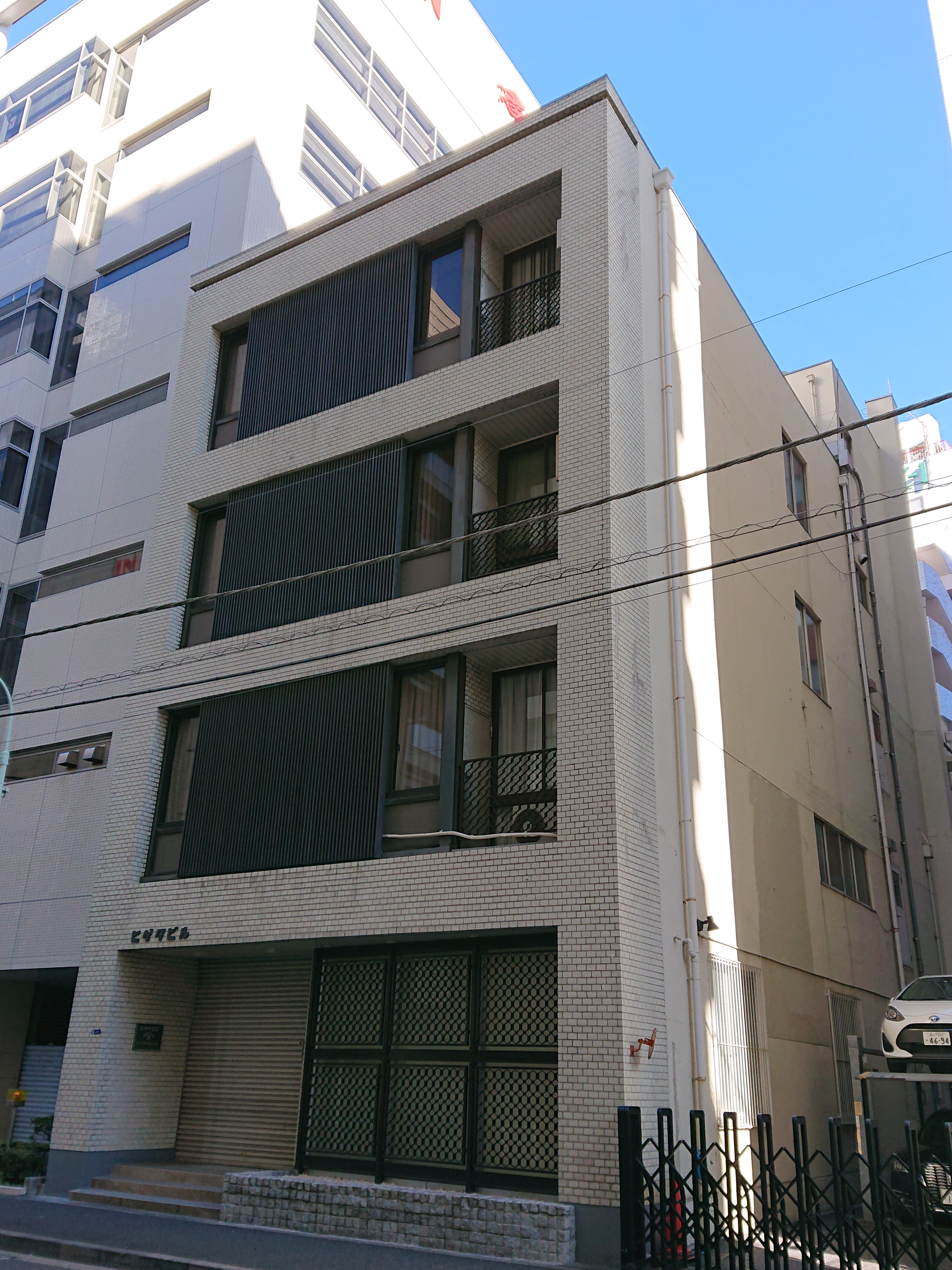 Higeta Building, located at 2-3 Nihonbashi-Koamicho, Chuo, Tokyo, Japan